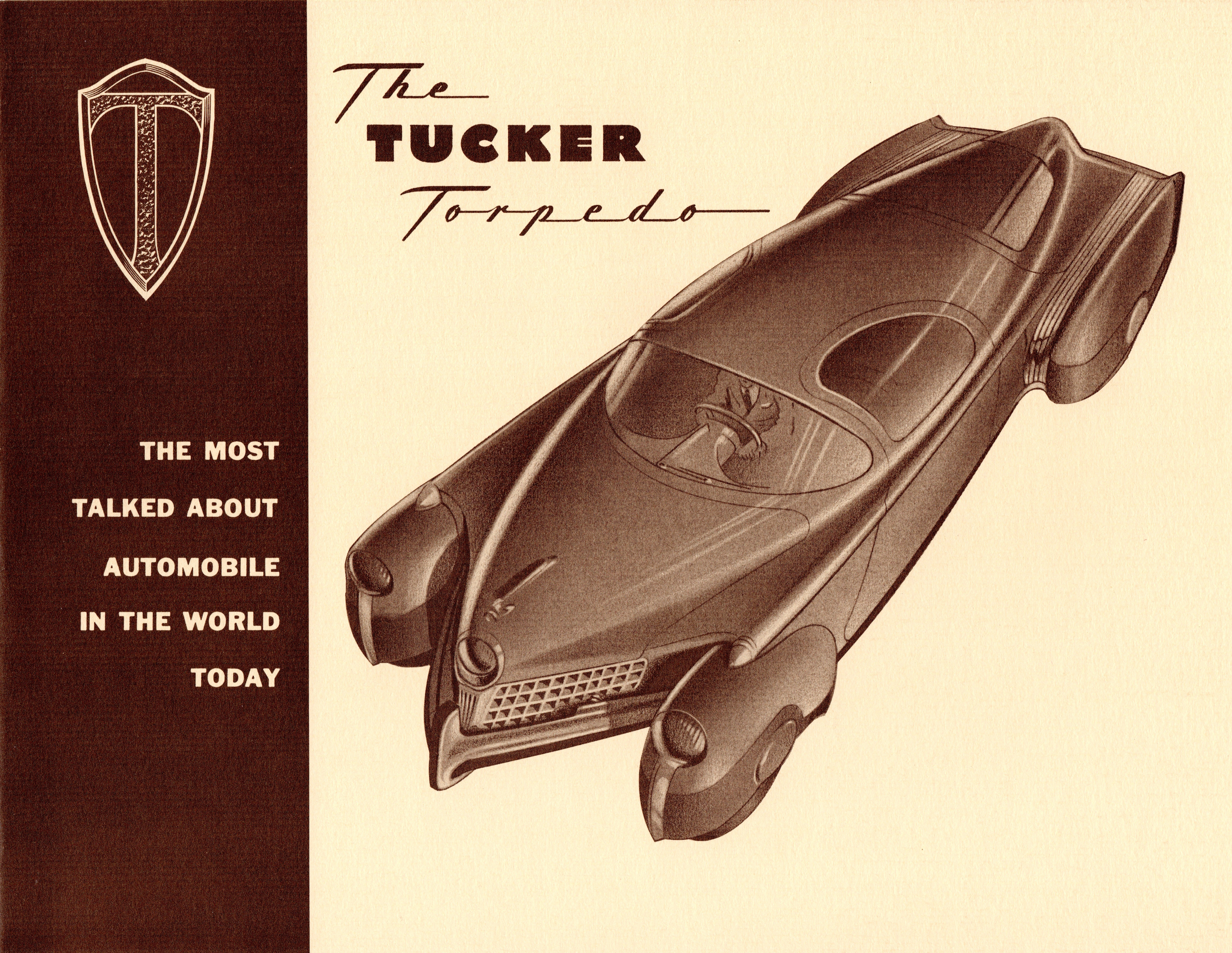 Note the centrally-positioned steering wheel and driver's seat in this early illustration, as well as the doors that wrap up into the roof and the front fenders that turn when the car is cornering. These items did not reach production.